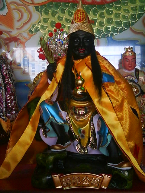 北邑三池府-濟公禪師